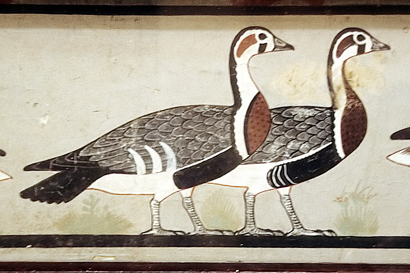 Detail of the geese of Meidum, CG 1742, JE 34571, Egyptian Museum of Cairo, Egypt